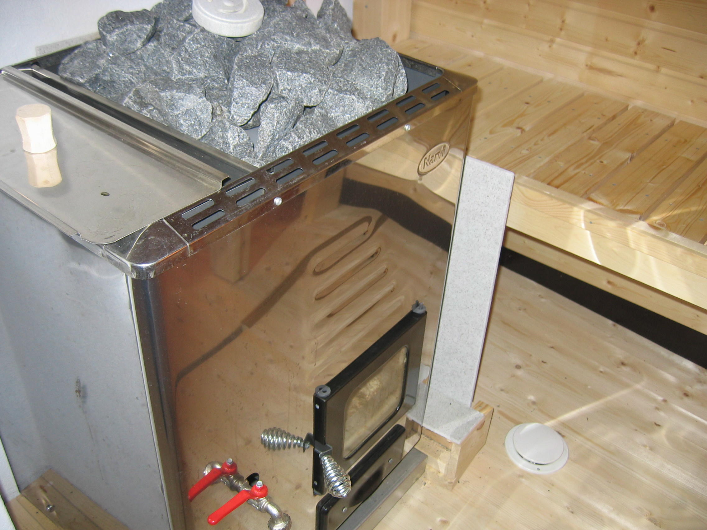 A traditional Finnish kiuas in a waterfront sauna.